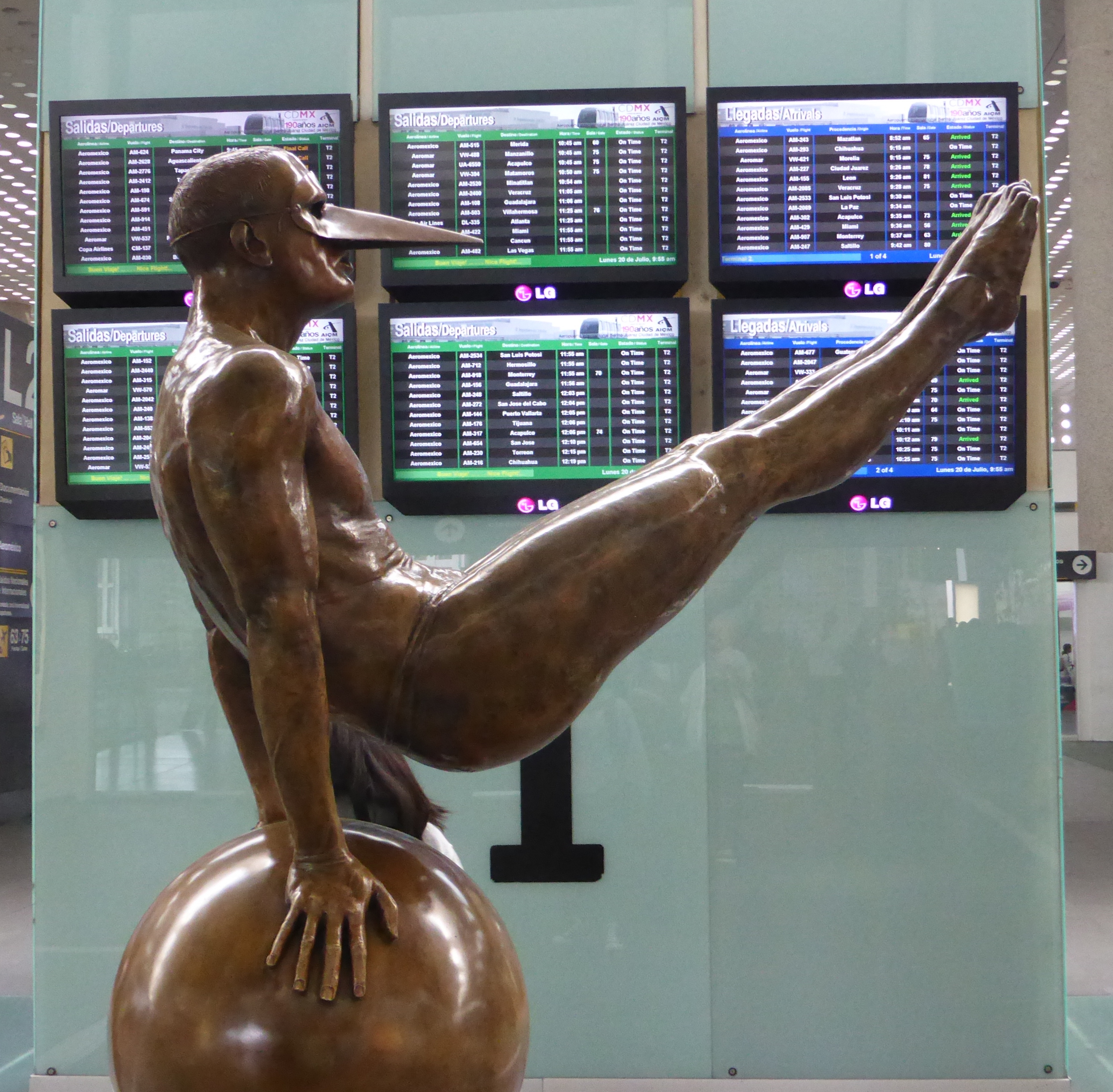 Wikimania 2015, Mexico City